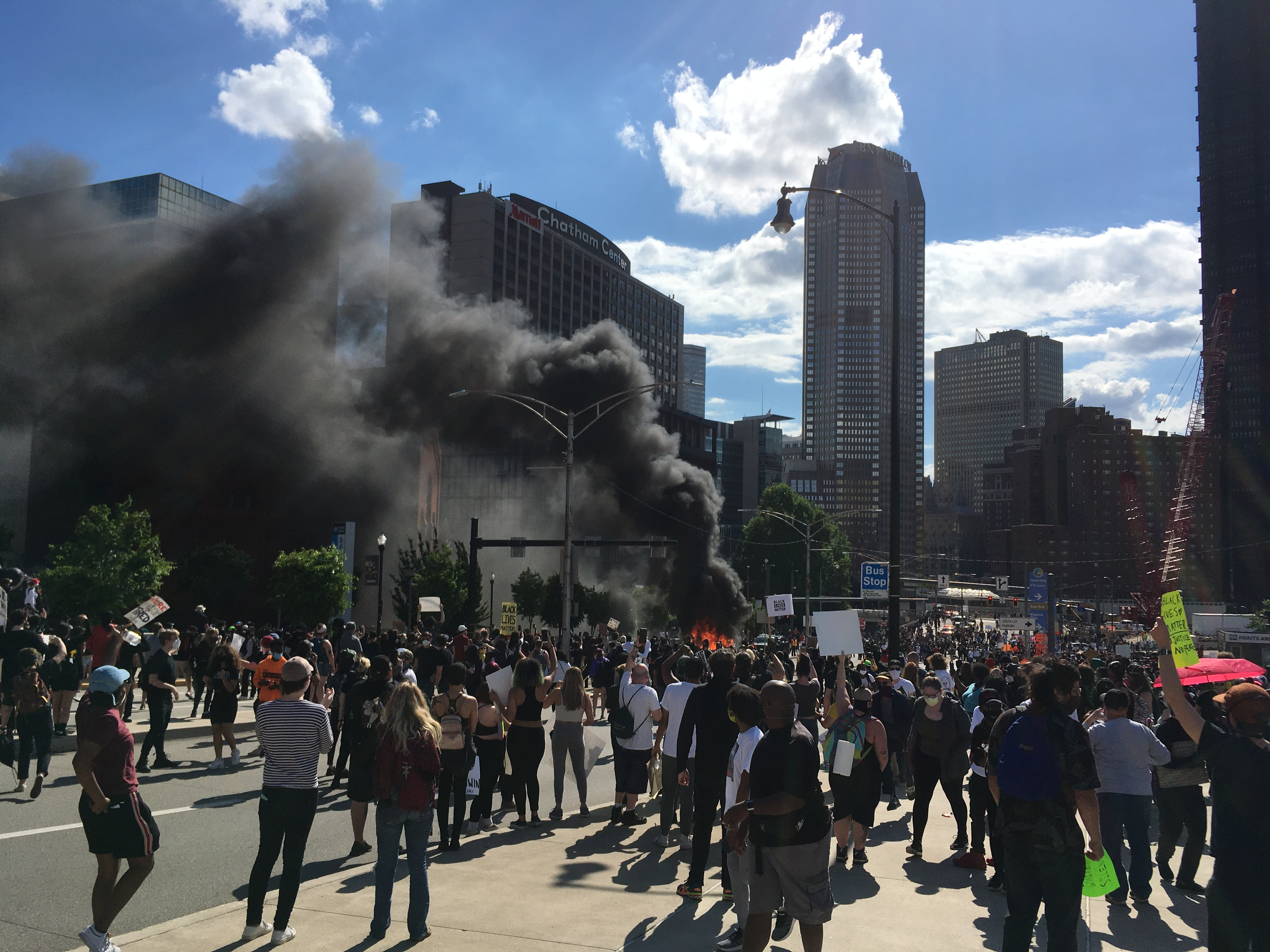 Protest in Pittsburgh, Pennsylvania, against the killing of George Floyd. A burning police car can be seen in the background.